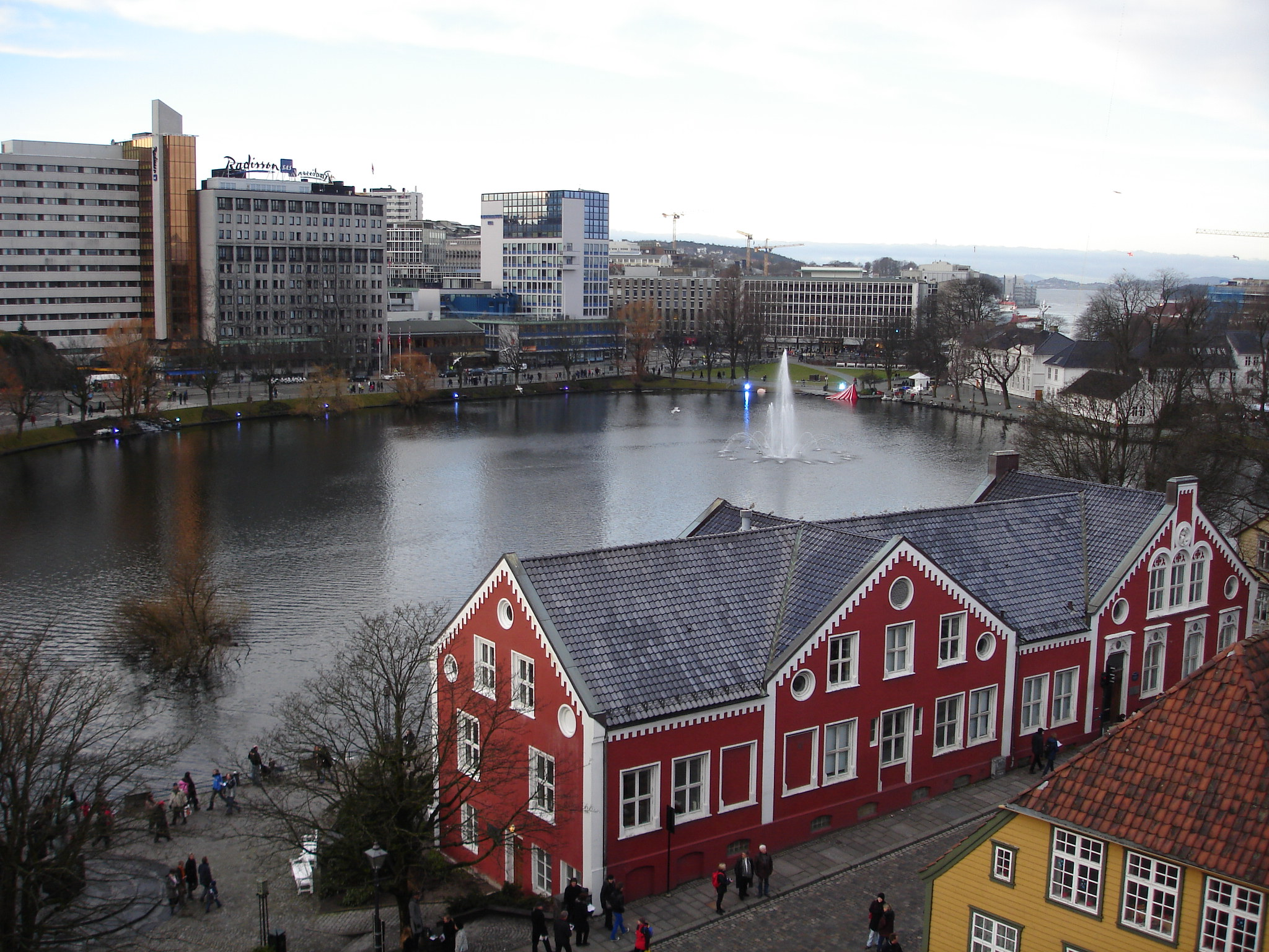 View over Breiavatnet toward the inner harbour Vågen in Stavanger